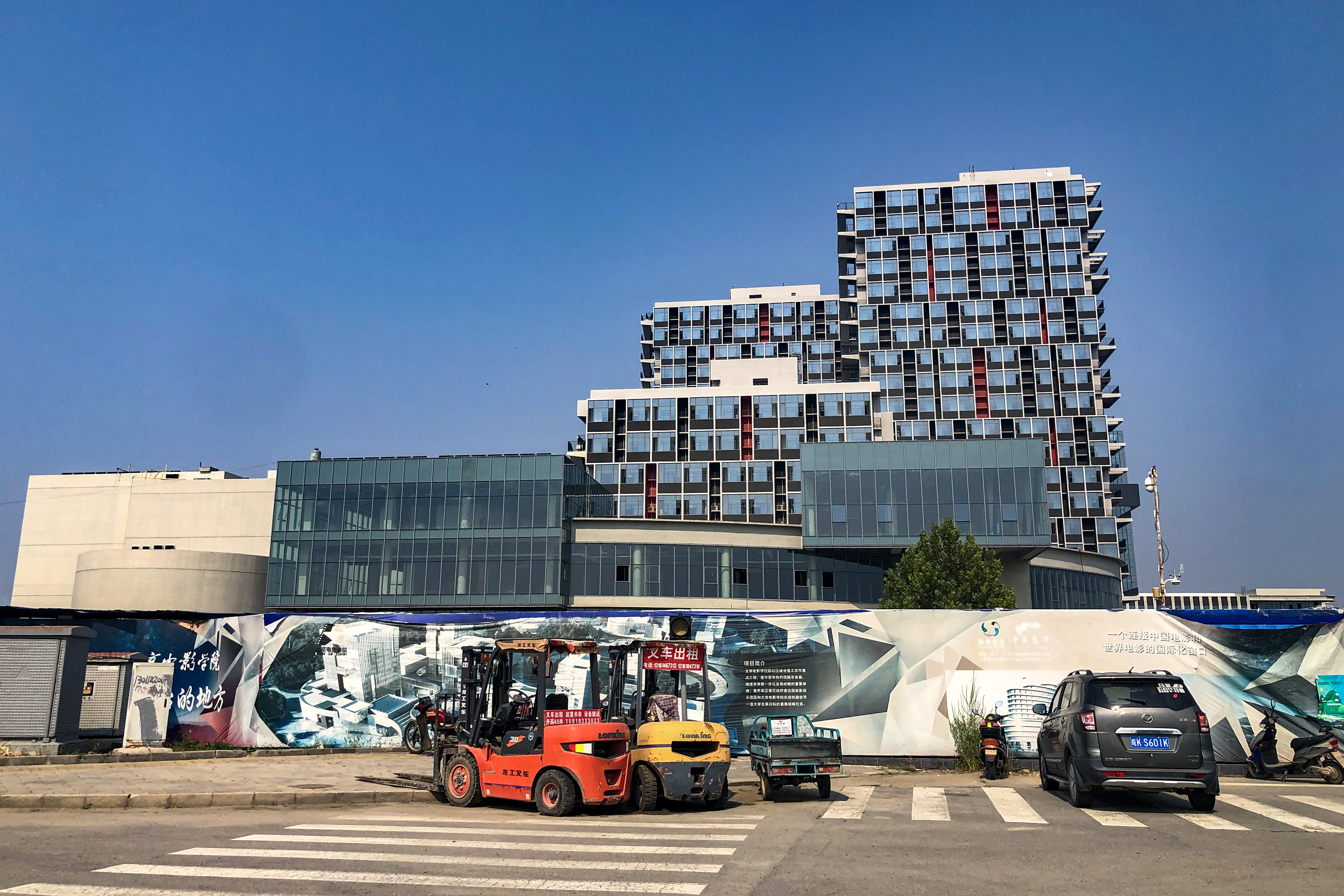 Not too far from Huairounan Railway Station.